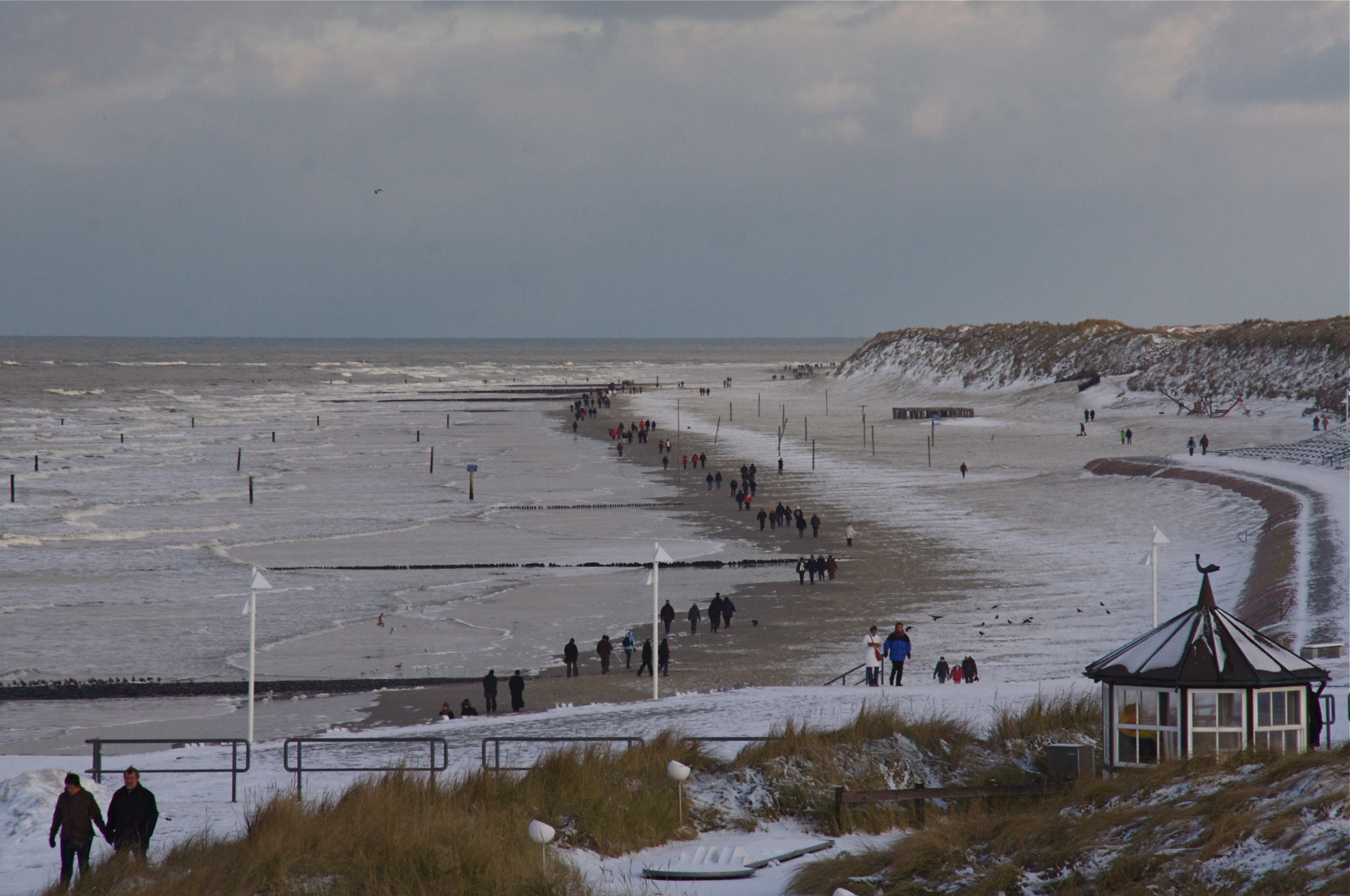 Winter on the German island Norderney